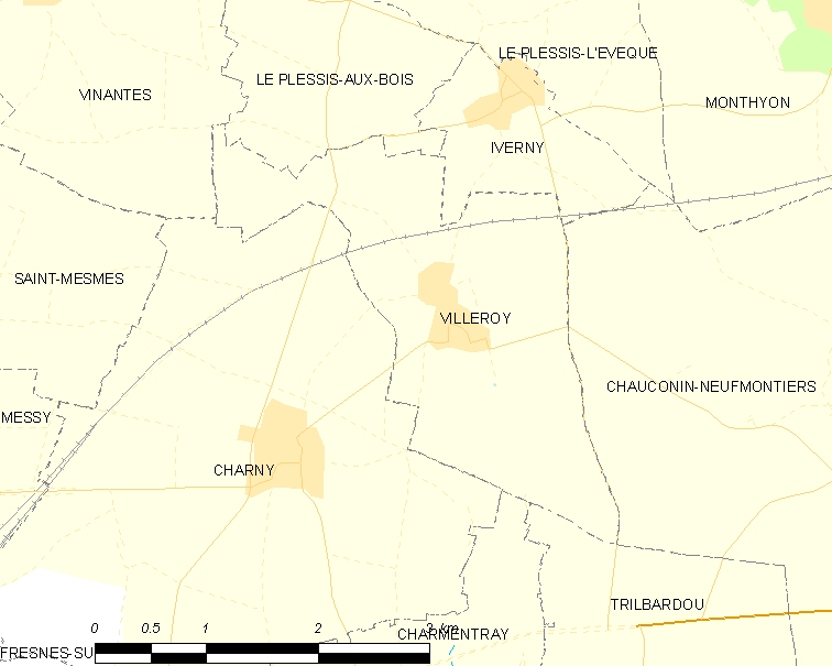 Map of French municipality Villeroy